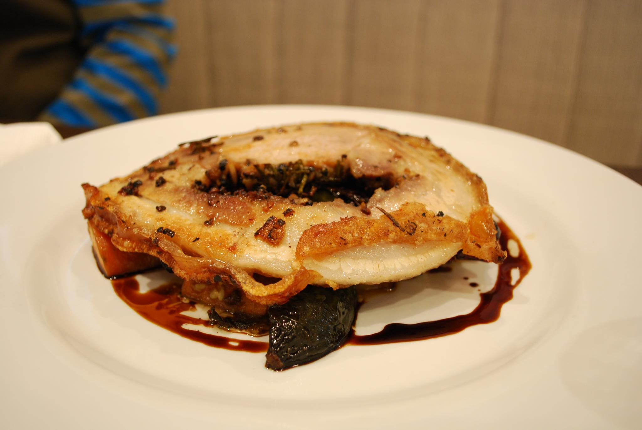 Porchetta stuffed with cracked pepper at Cafe Moretti in Australia.